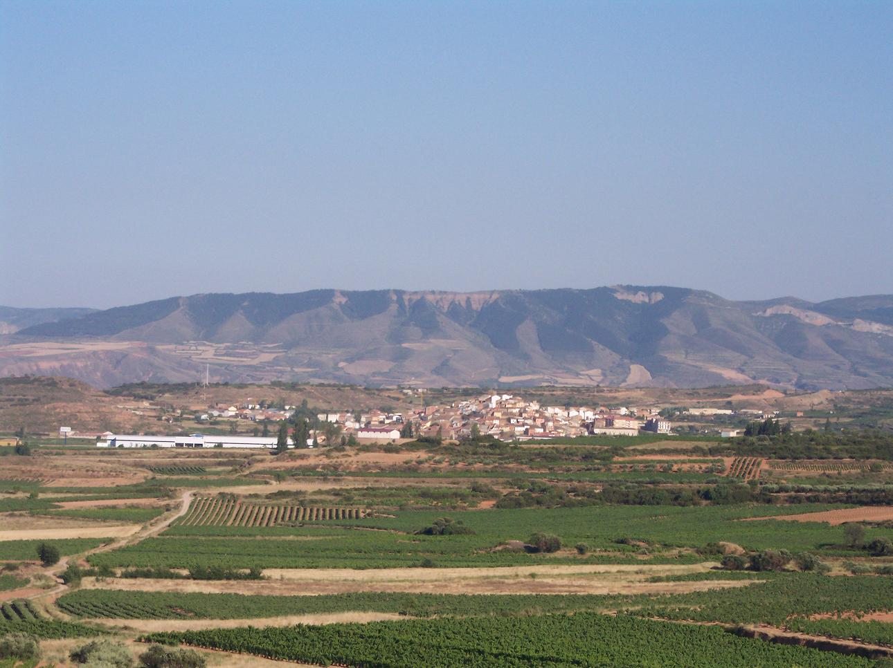 Overview of Entrena, municipality of La Rioja (Spain)